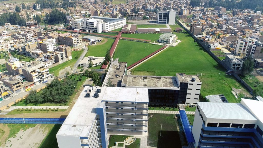 The main campus of the UPLA university in Huancayo - Perú.